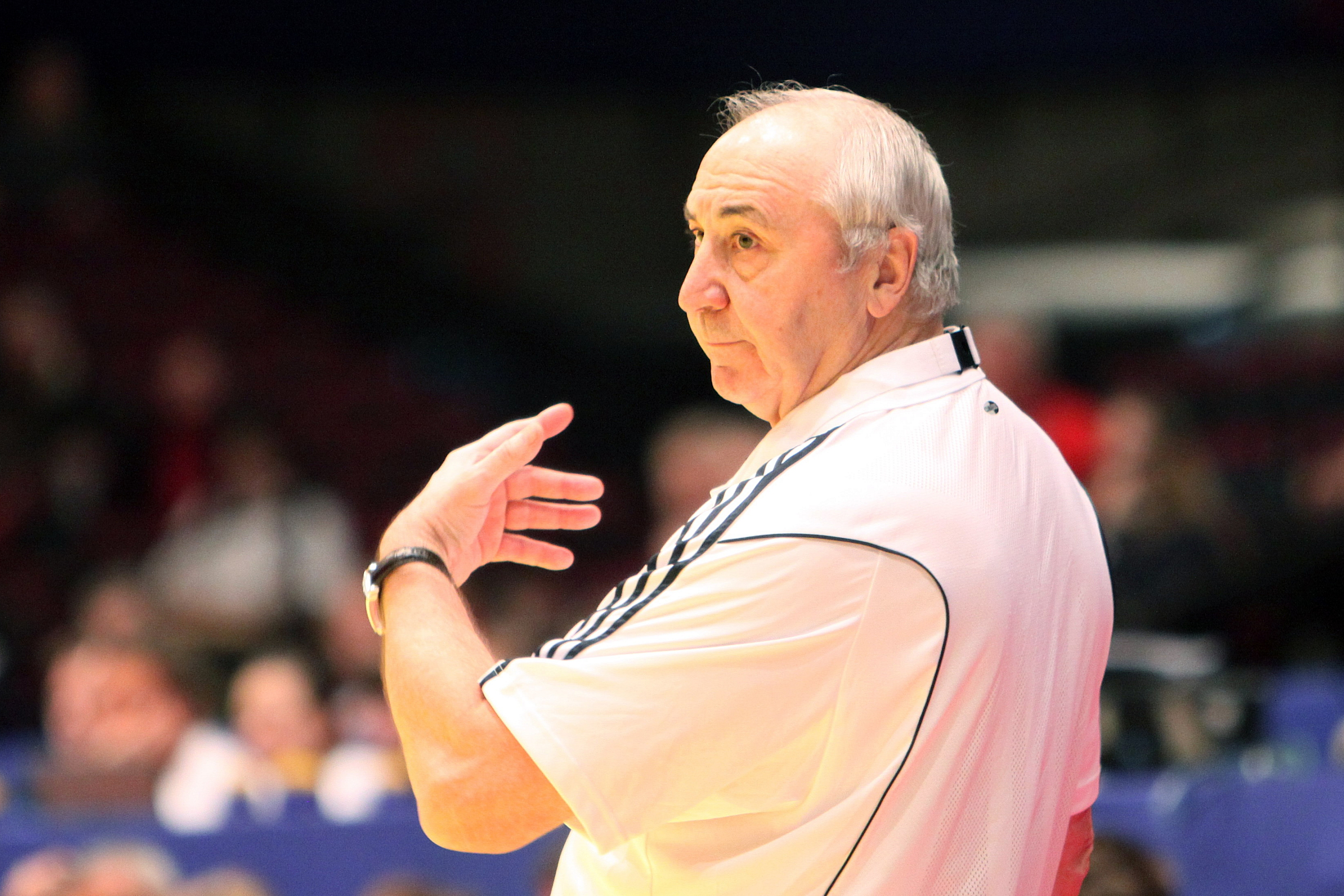 Vladimir Maximov (Teamchef), Russia national handball team